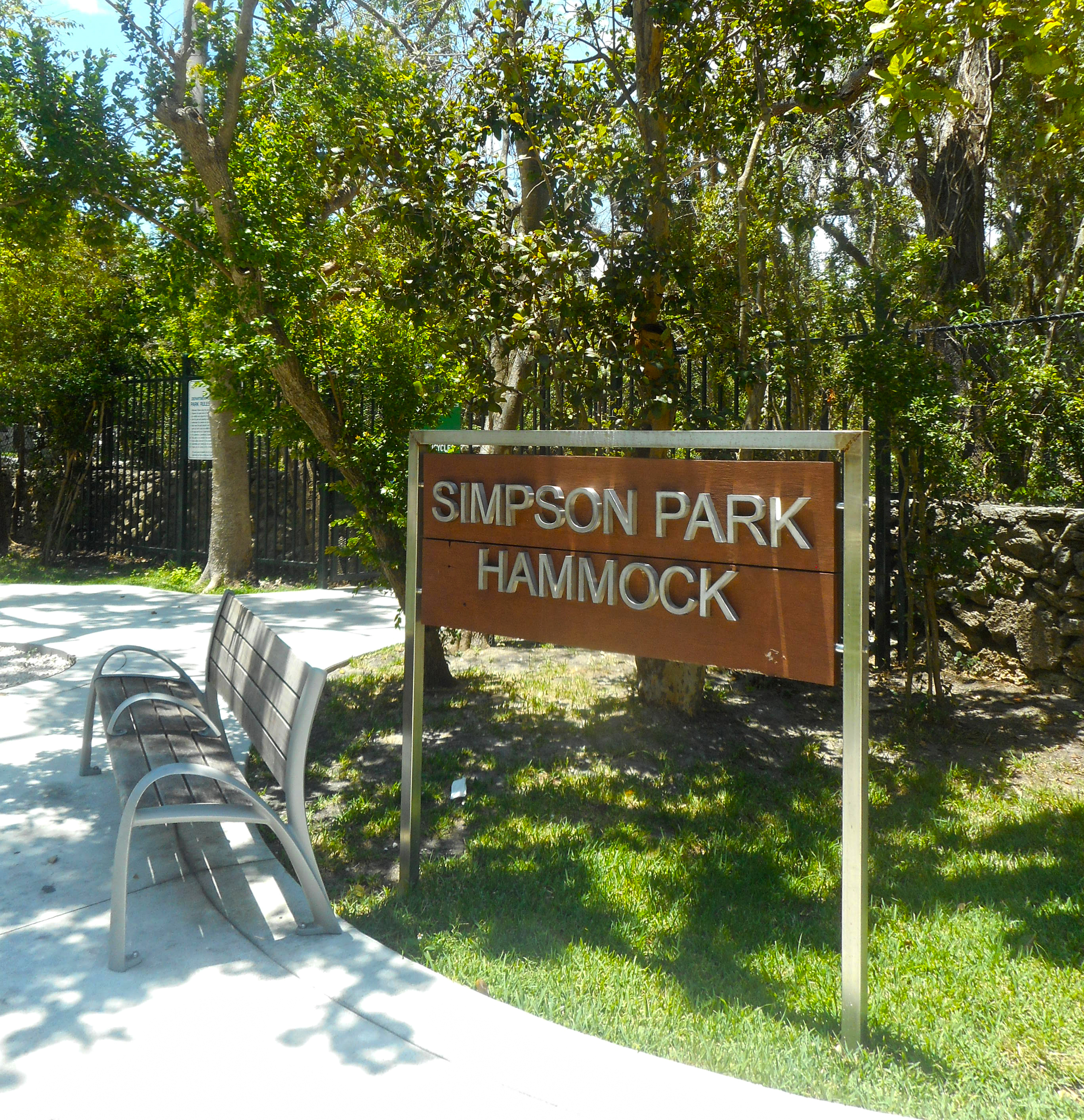 Simpson Park Hammock entrance sign on 15th Road and S. Miami Avenue